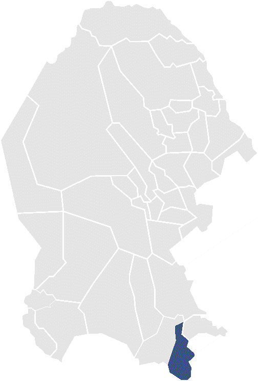 Map of the Fourth Federal Electoral District of the State of Coahuila, México.